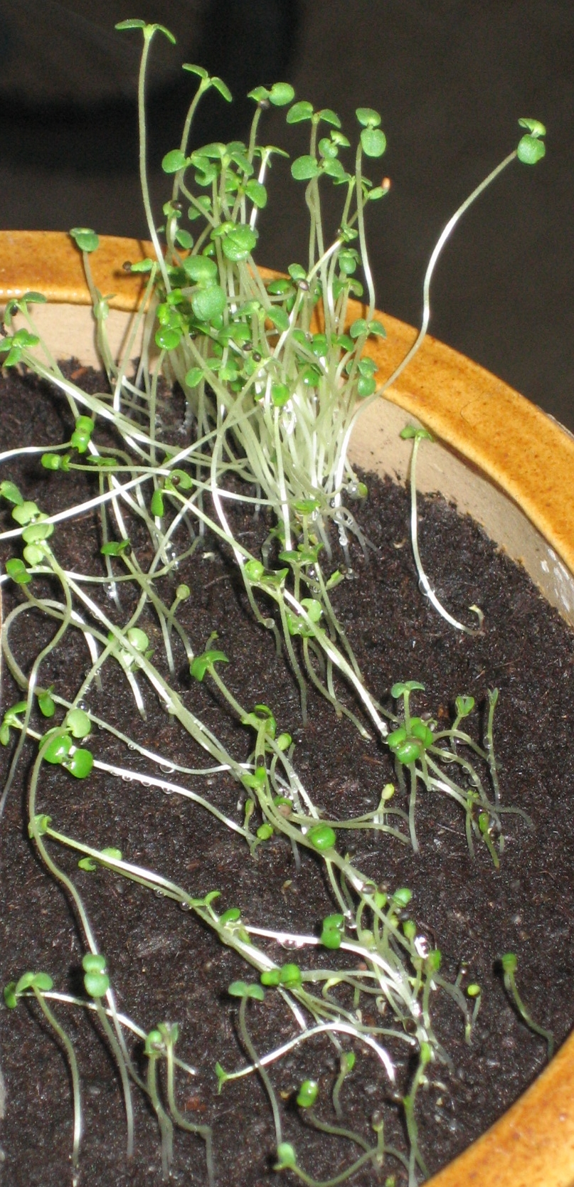 Cząber ogrodowy, Summer savory, Satureja hortensis, 12 days old. Author: Paweł Bura